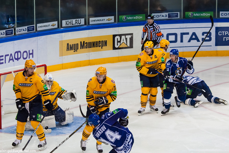 Amur forward Dmitri Tarasov scores a goal during KHL game Amur Khabarovsk vs. Atlant Moscow Oblast on September 5, 2012. Amur players in blue (LTR): Dmitri Tarasov, Juha-Pekka Hytönen, Jakub Petružálek. Atlant players in yellow (LTR): Nikolay Zherdev, Nikita Davydov, Perttu Lindgren, Janne Niskala.